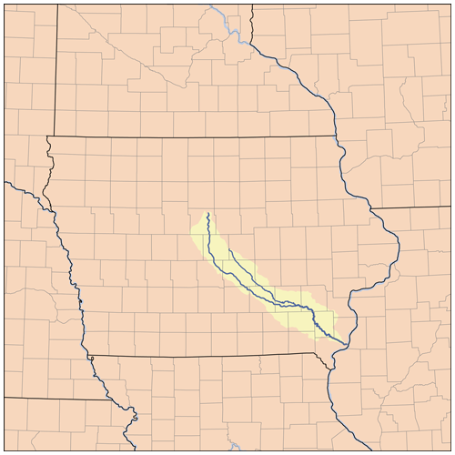 Map of the Skunk River watershed in Iowa. Tributary of the Mississippi River.